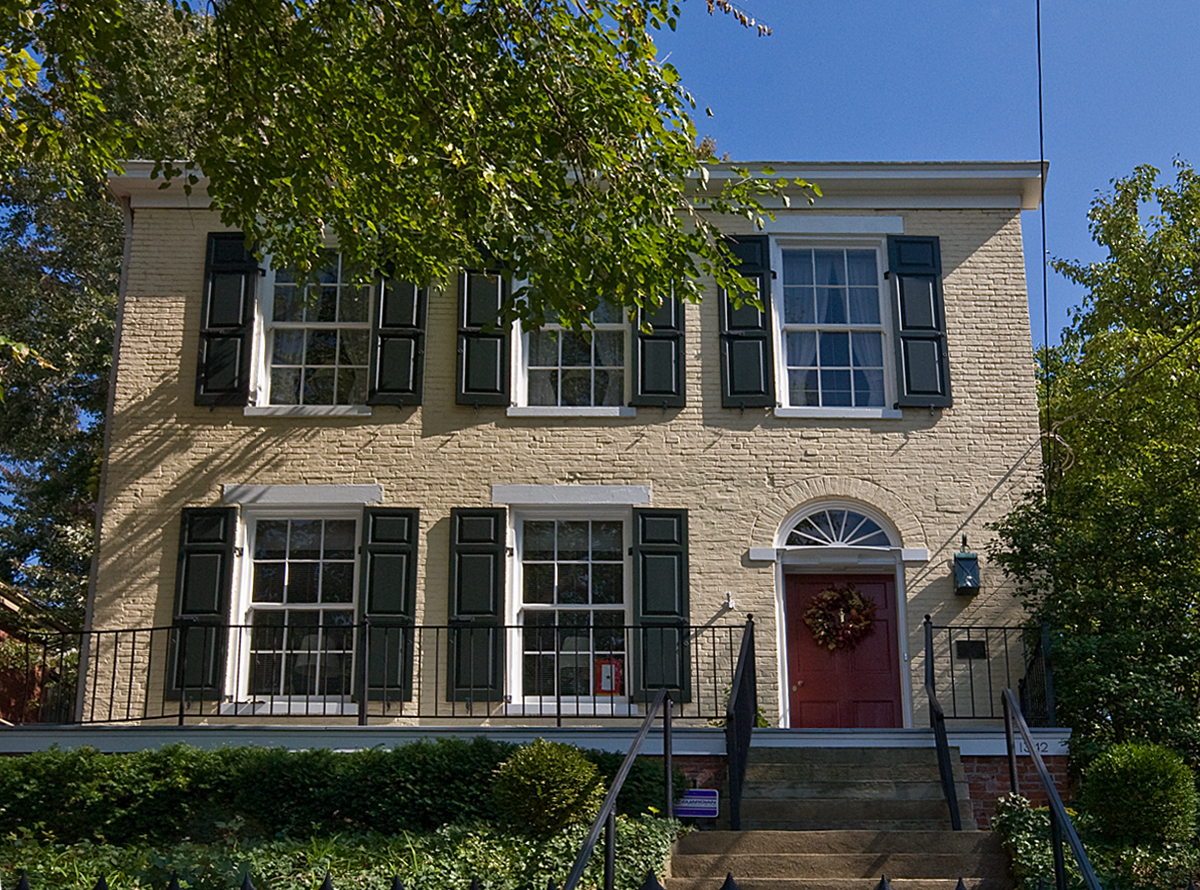 Samuel Burdsal House in Cincinnati, OH. Photo by Greg Hume.